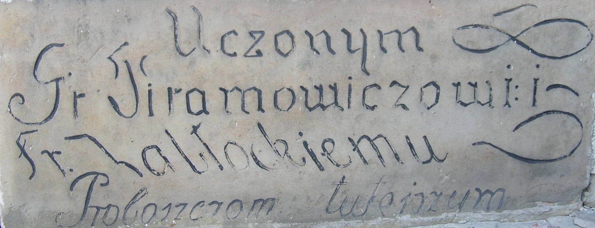 Memorial table of Franciszek Zabłocki and Grzegorz Piramowicz in church in Końskowola